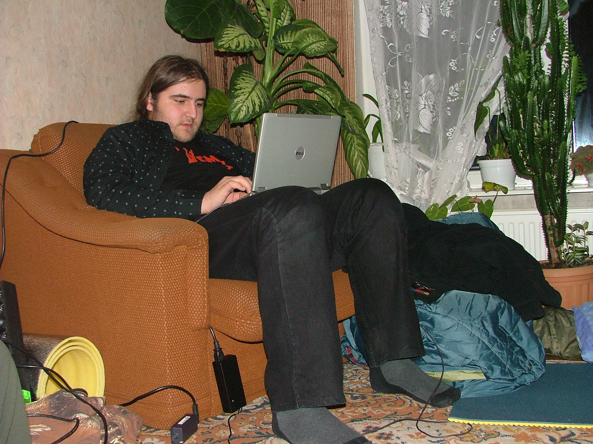 GDJ Poland Wikimedia Meetup in Chorzów 15-16.12.2007